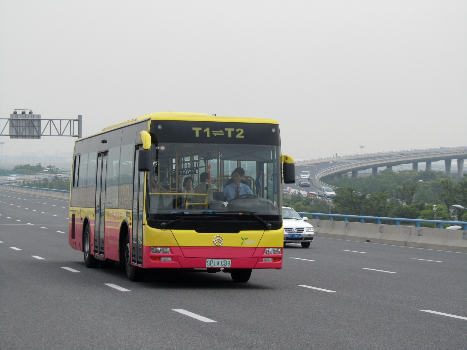 Shanghai Pudong Airport T1-T2 bus